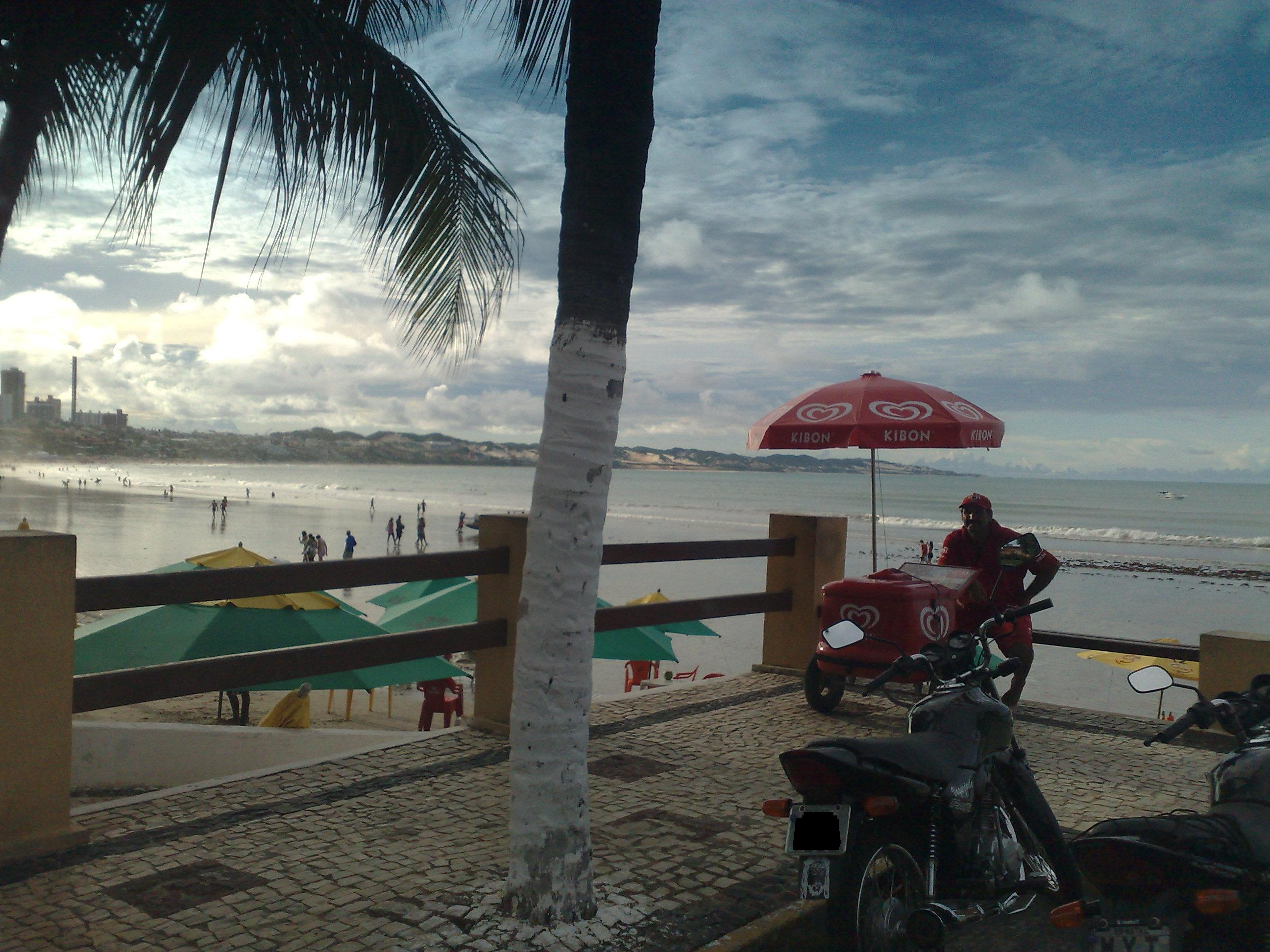 Pirangi Beach in Natal, Rio Grande do Norte, Brazil.